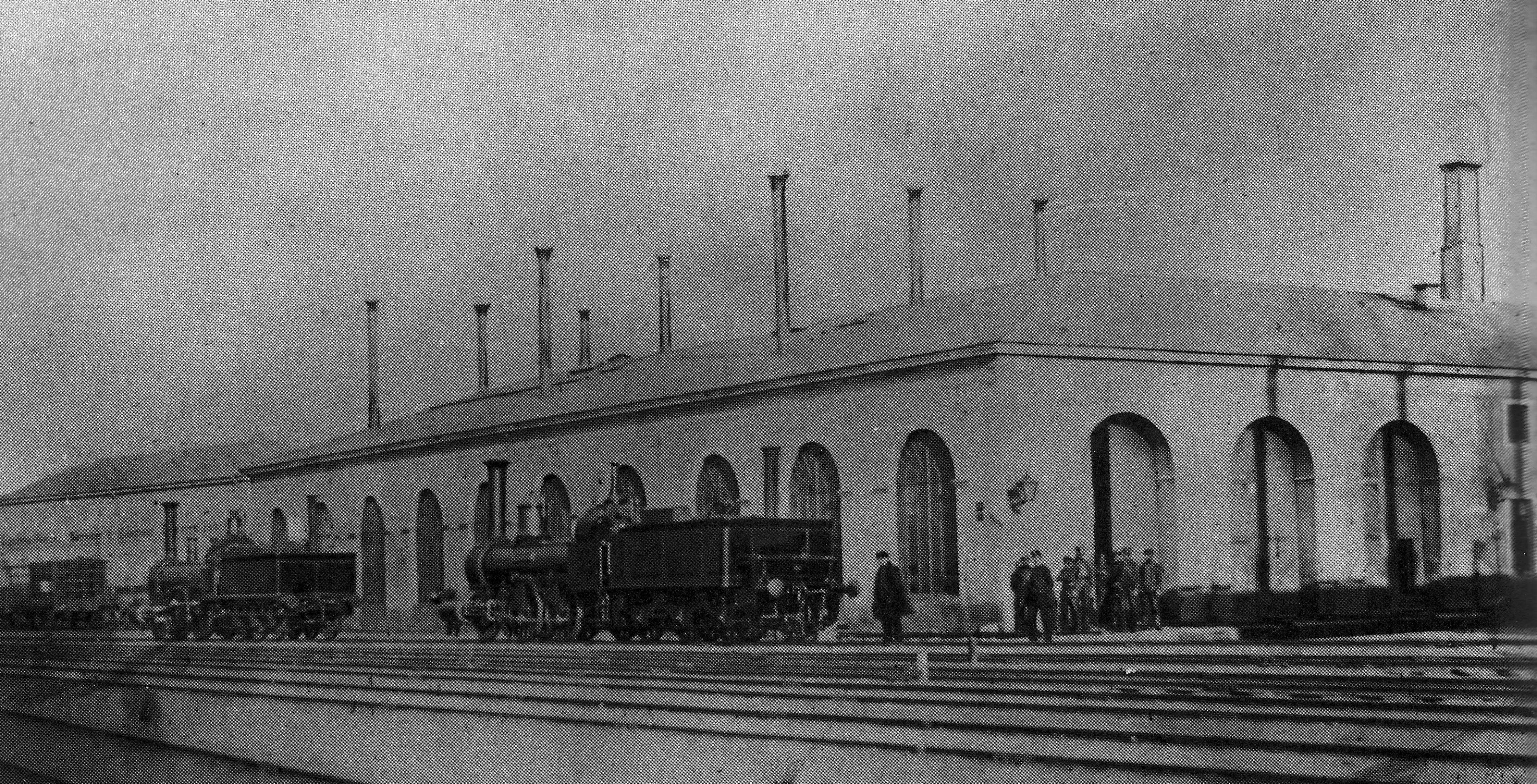 Dresden. Workshop of station "Leipziger Bahnhof", built in 1852. Picture taken around 1860